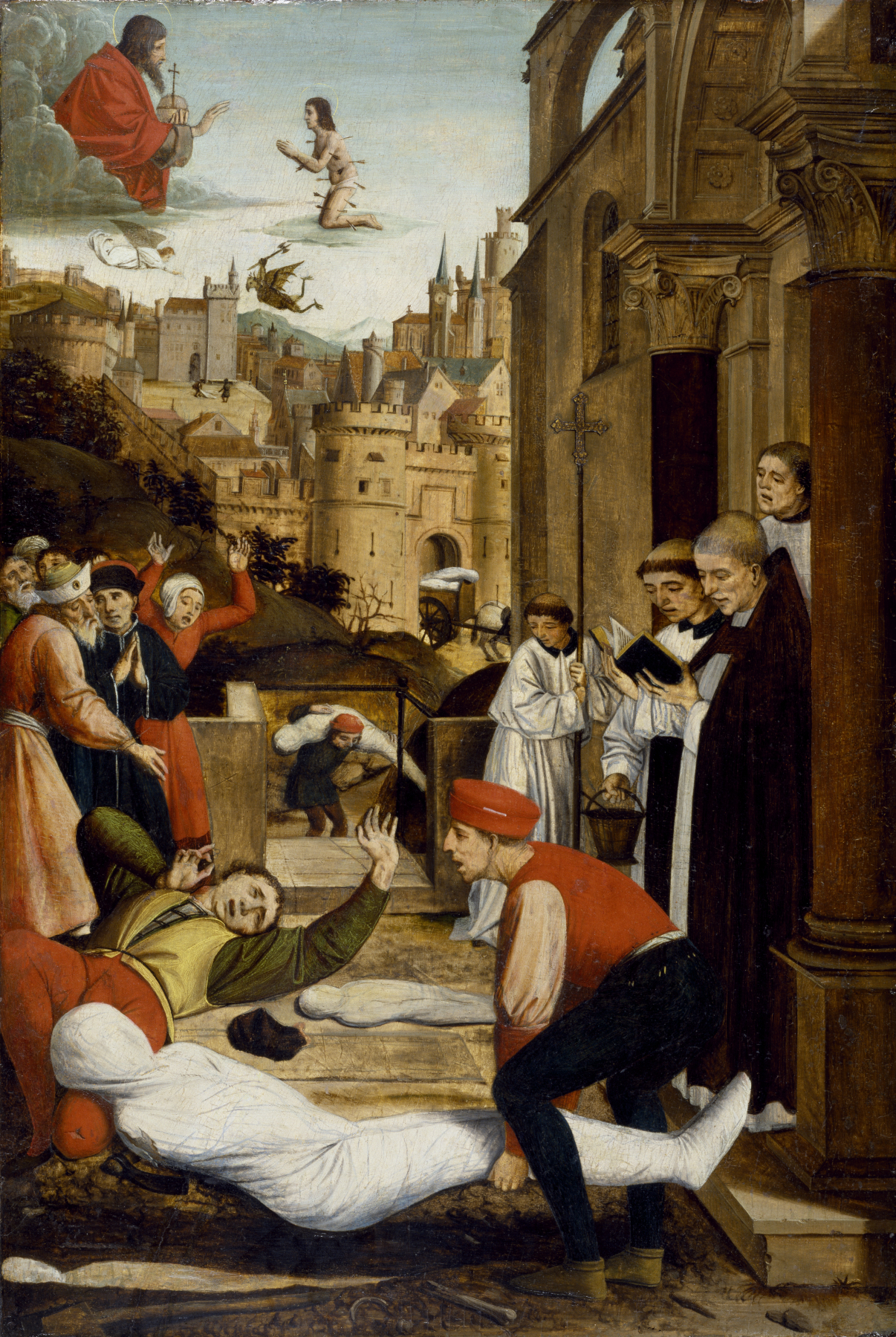 St. Sebastian was a Roman military officer martyred about AD 300 by being shot full of arrows and then clubbed to death. He was prayed to for protection against the plague. This painting depicts one instance of his intercession. According to legend, this event occurred long after the saint's death, during an outbreak of the plague in 7th-century Pavia, Italy. Here, just as a victim is to be buried, a grave attendant is struck by the disease. The plague-or Black Death-devastated Europe for centuries, and the painting's viewers would have known its horrors. St. Sebastian, pierced with arrows, kneels before God to plead on behalf of humanity, while an angel and a demon battle in the sky. The artist was never in Italy and based the appearance of Pavia on that of Avignon. In 1497, Lieferinxe contracted with the Confraternity of St. Sebastian to paint an altarpiece dedicated to their patron saint in the church of Notre-Dame-des-Accoules (now destroyed) in Marseille, France. Six other panels from this altarpiece are now in the Philadelphia Museum of Art (Johnson Collection), the Museo di Palazo Venezia in Rome, and the Hermitage Museum, Saint Petersburg. See the recent article Katz, Melissa R. "Preventative Medicine: Josse Lieferinxe's Retable Altar of St. Sebastian as a Defense Against Plague in 15th Century Provence." Interfaces 26 (2006-7): 59-82.